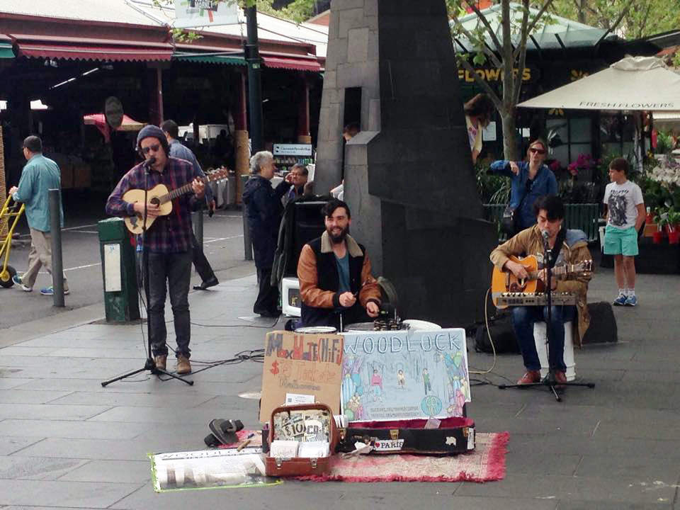 Melbourne-based band Woodlock performing at the Queen Victoria Markets on September 29, 2015